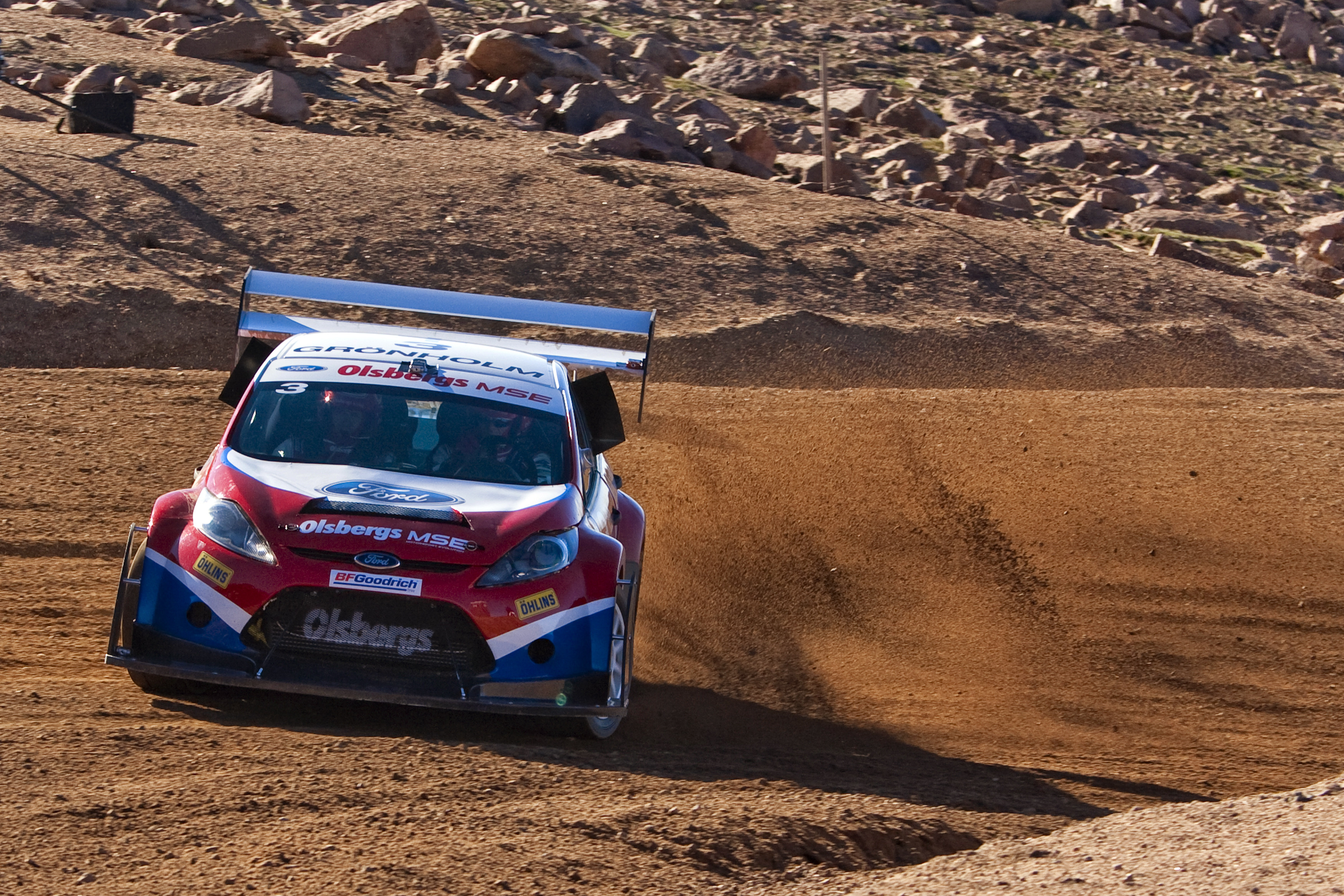 Marcus Grönholm drives an 800 BHP Ford Fiesta prepared by Olsbergs MSE. 2009 Pikes Peak International Hill Climb.